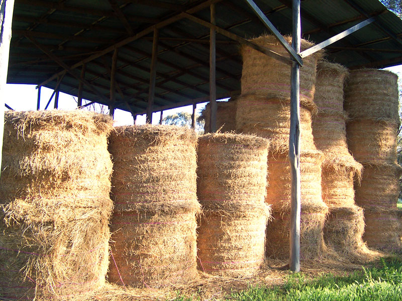 Hay Shed